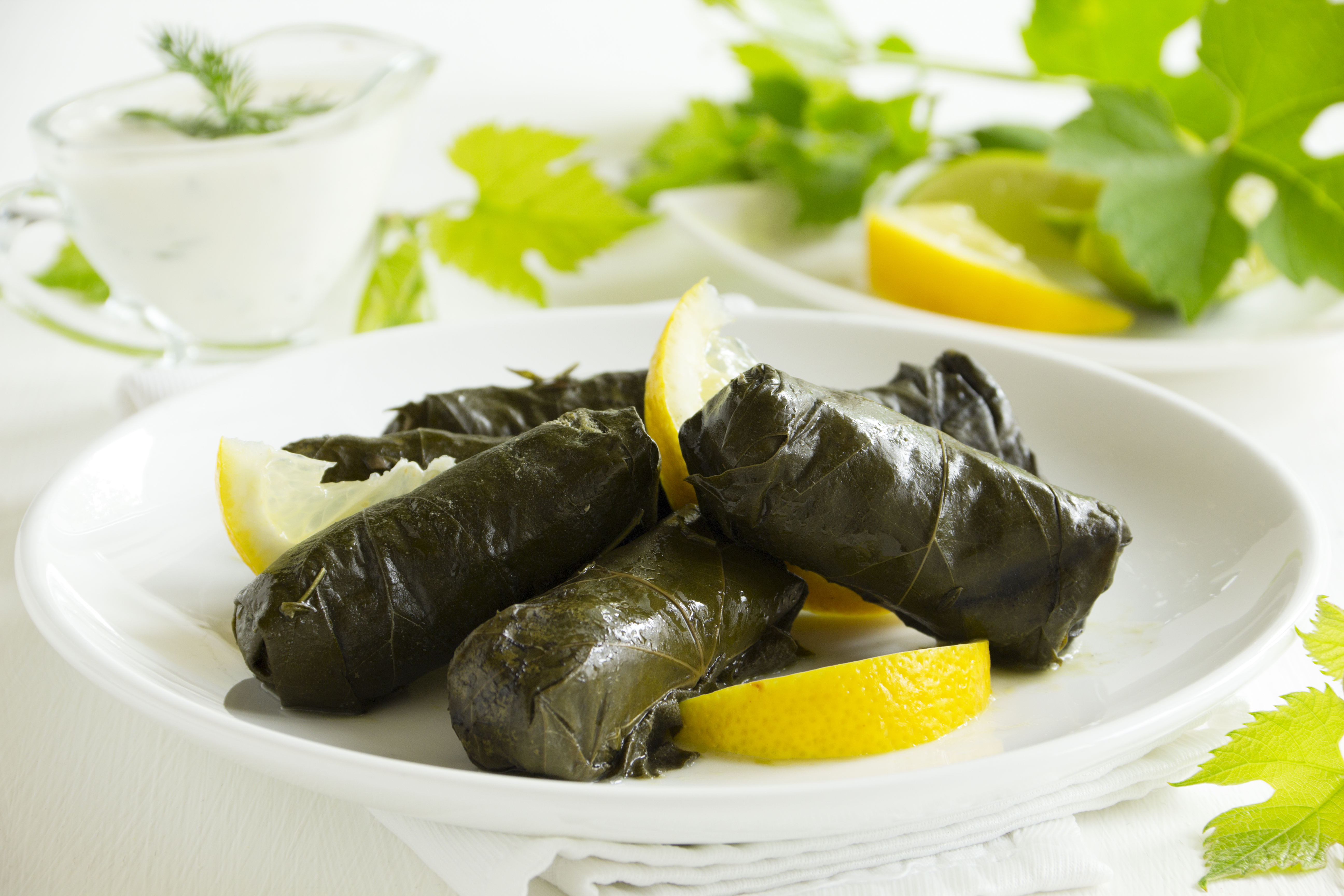 dolma, stuffed grape leaves, turkish and greek cuisine